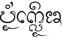 Lanna – Bo Kluea is a district (Amphoe) in the eastern part of Nan Province, northern Thailand.